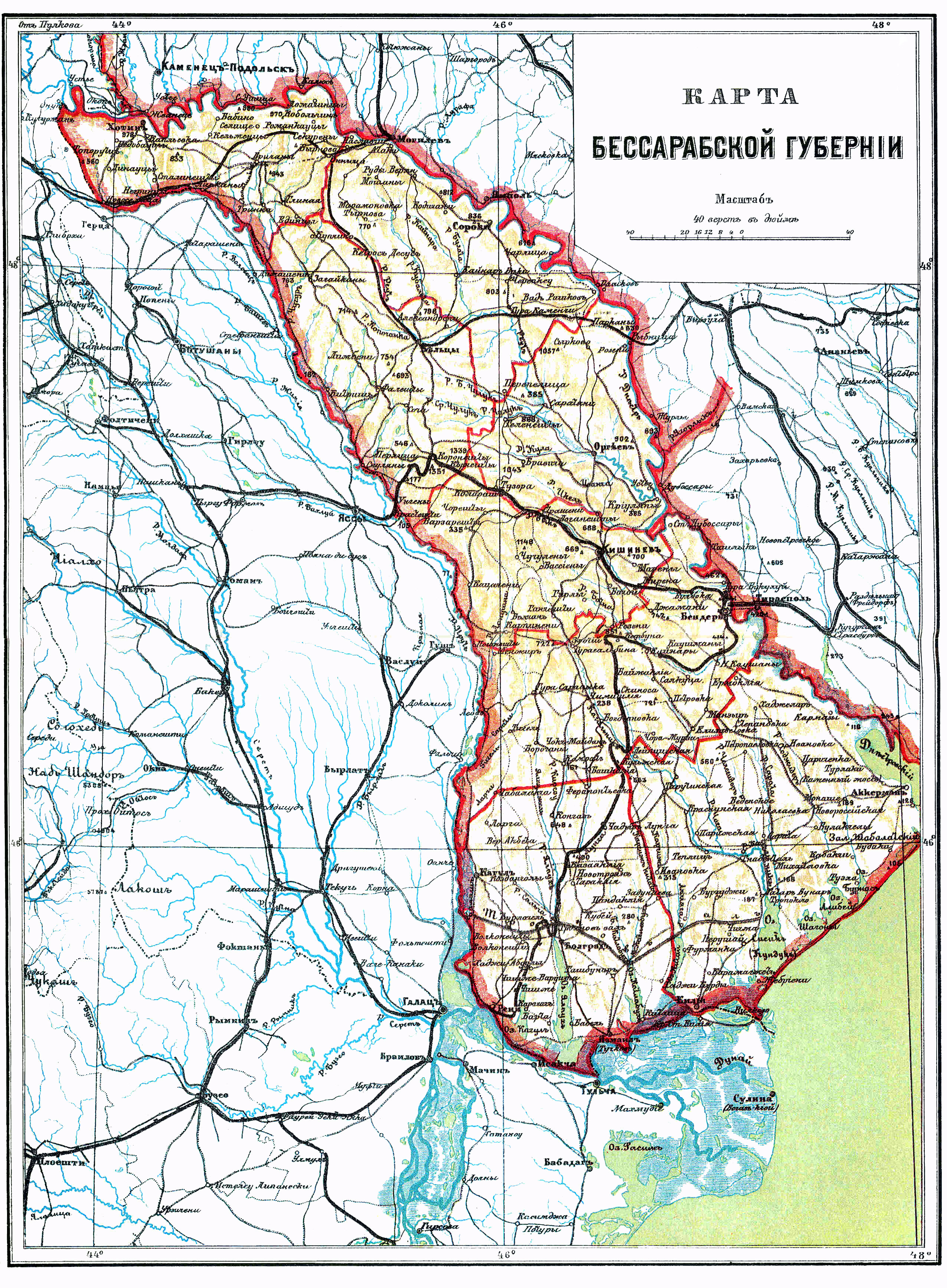 Illustration from Brockhaus and Efron Encyclopedic Dictionary (1890—1907)